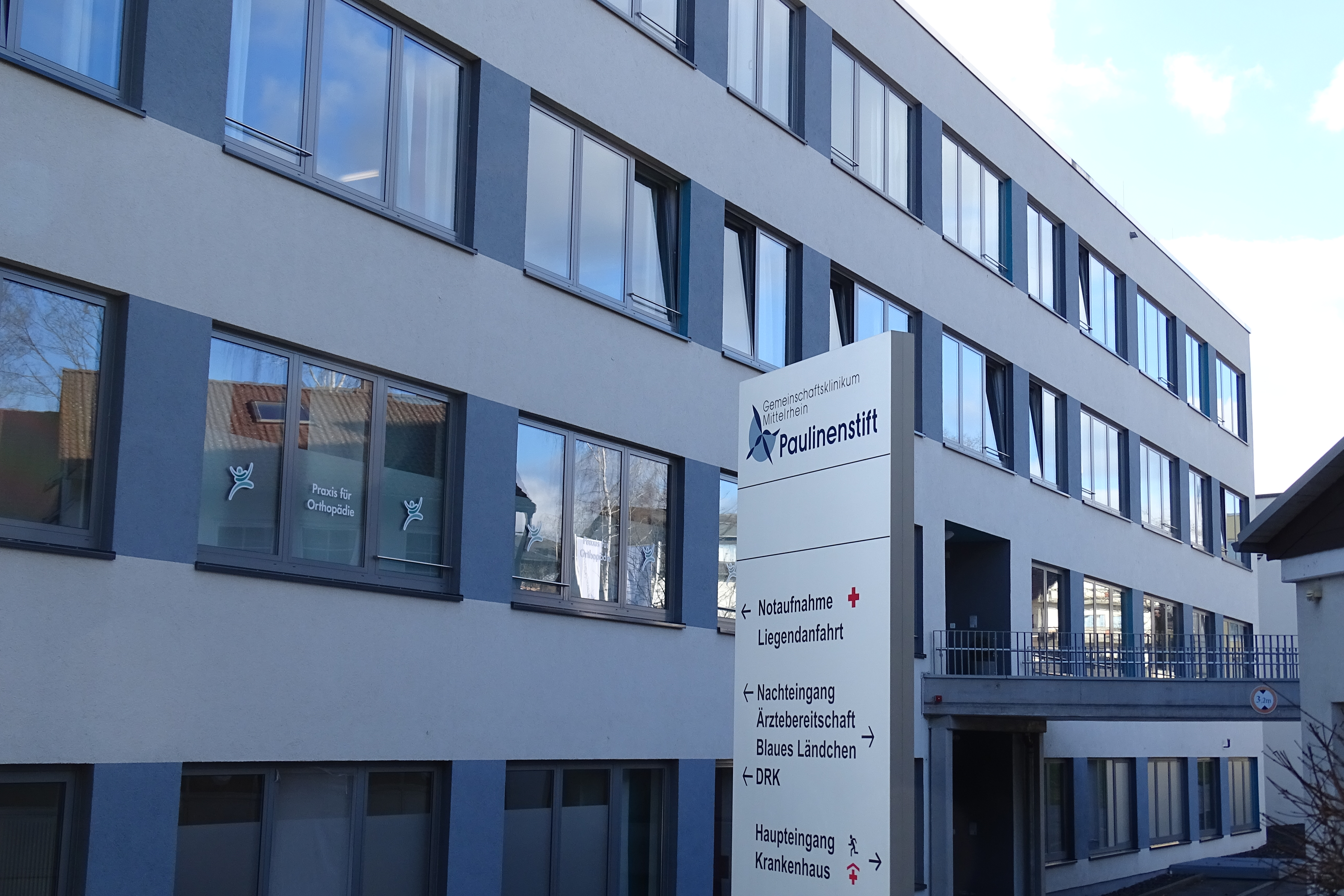 Paulinenstift Nastätten